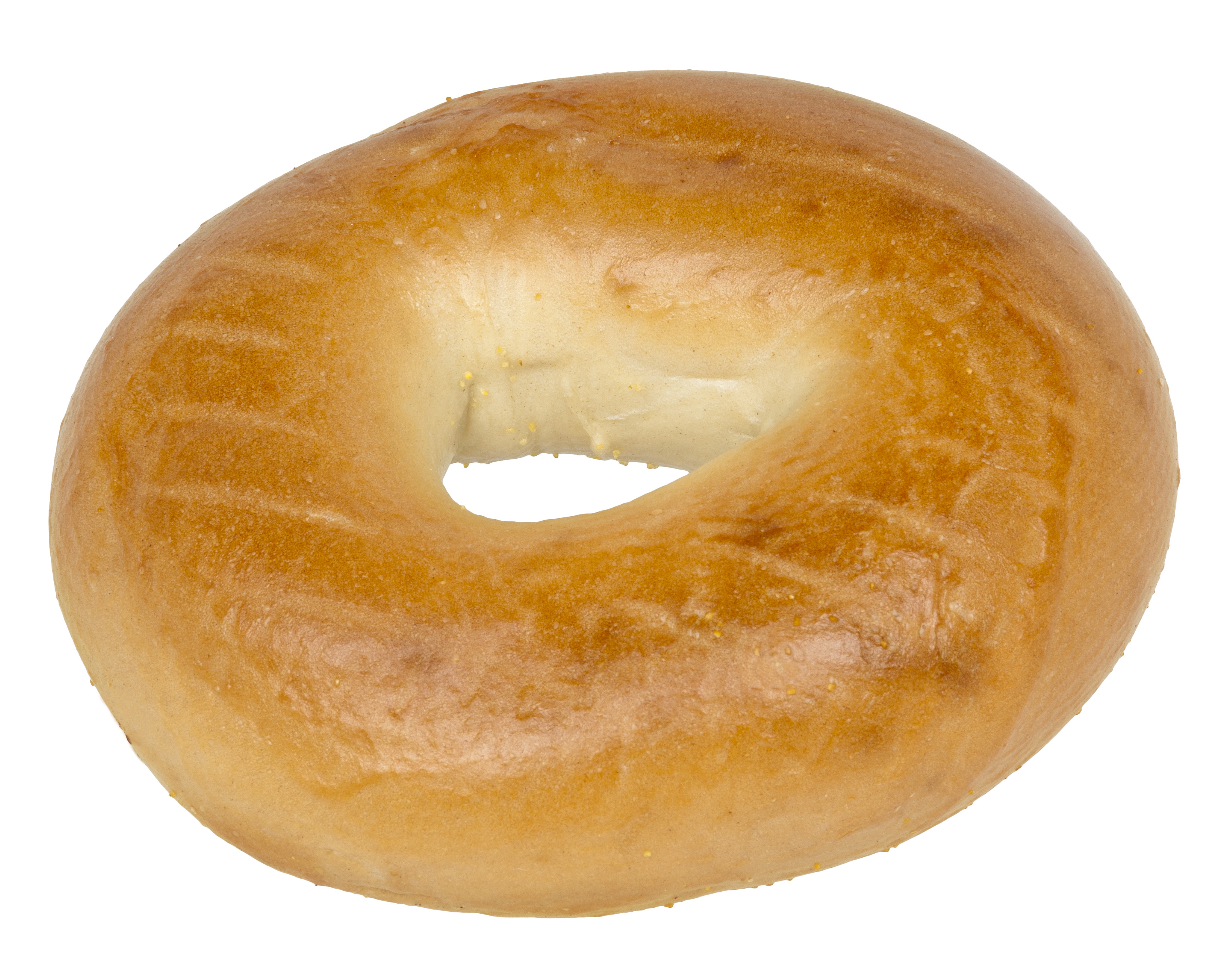 A plain bagel, bought from a local bagel store in Brooklyn, New York.